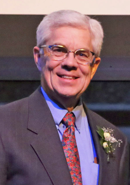 Montana Lt. Governor Mike Cooney presented the certificate to Bureau of Land Management Archeologist Zane Fulbright (center) and Acting Upper Missouri River Breaks National Monument Manager Josh Chase. (BLM Photo)